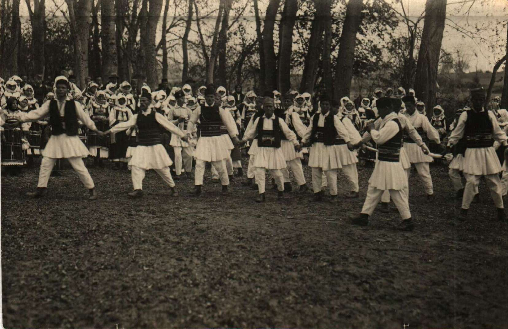 Macedonia